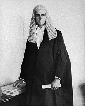 Bill Barnard as Speaker, 1935.